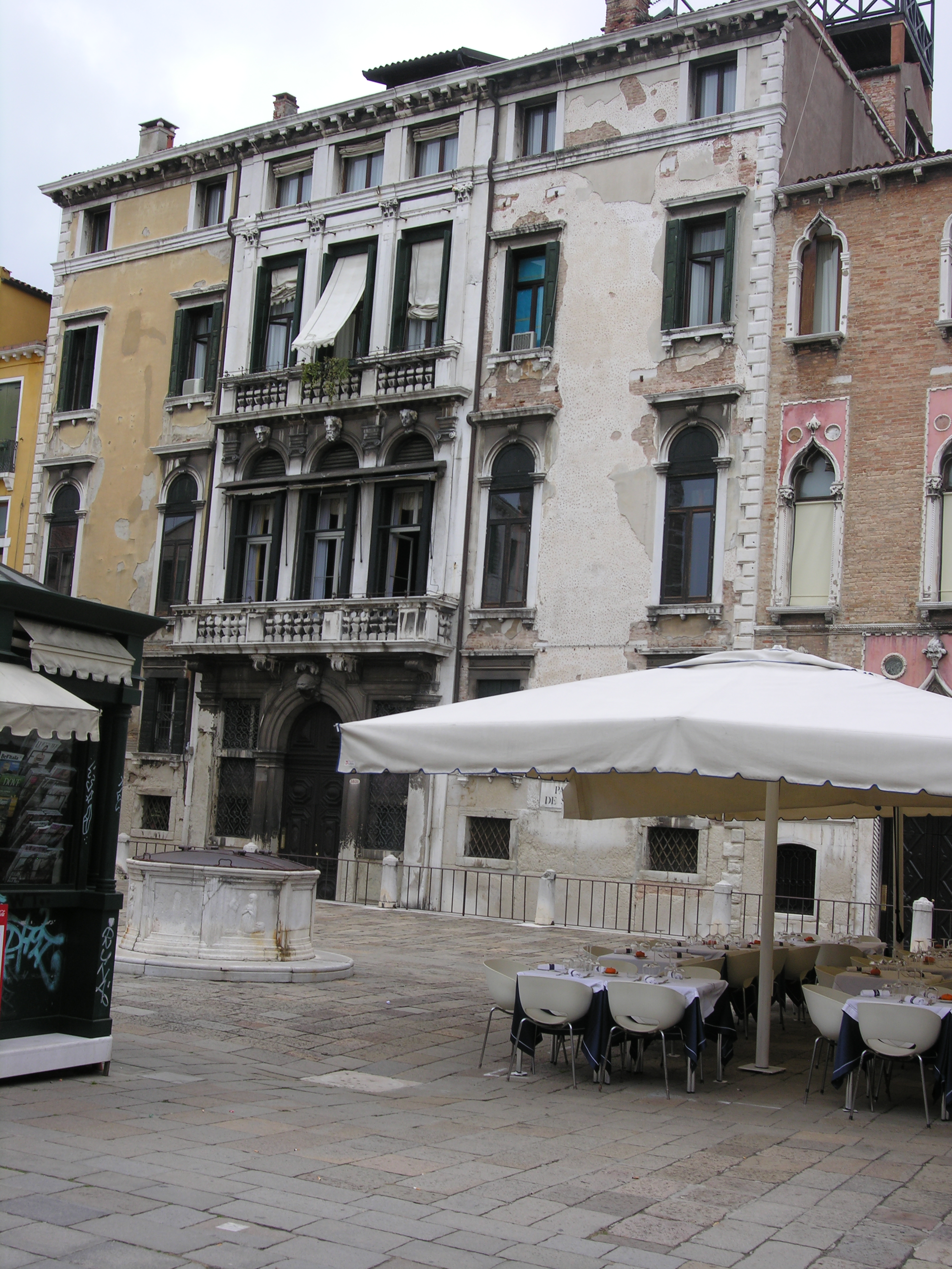 San Marco, 30100 Venice, Italy